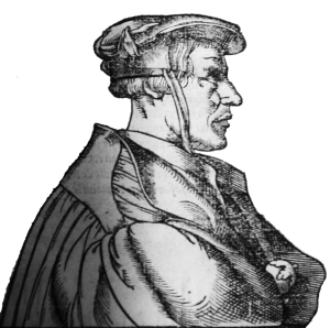 Heinrich Cornelius Agrippa von Nettesheim (1486–1535) was a German physician and scholar.